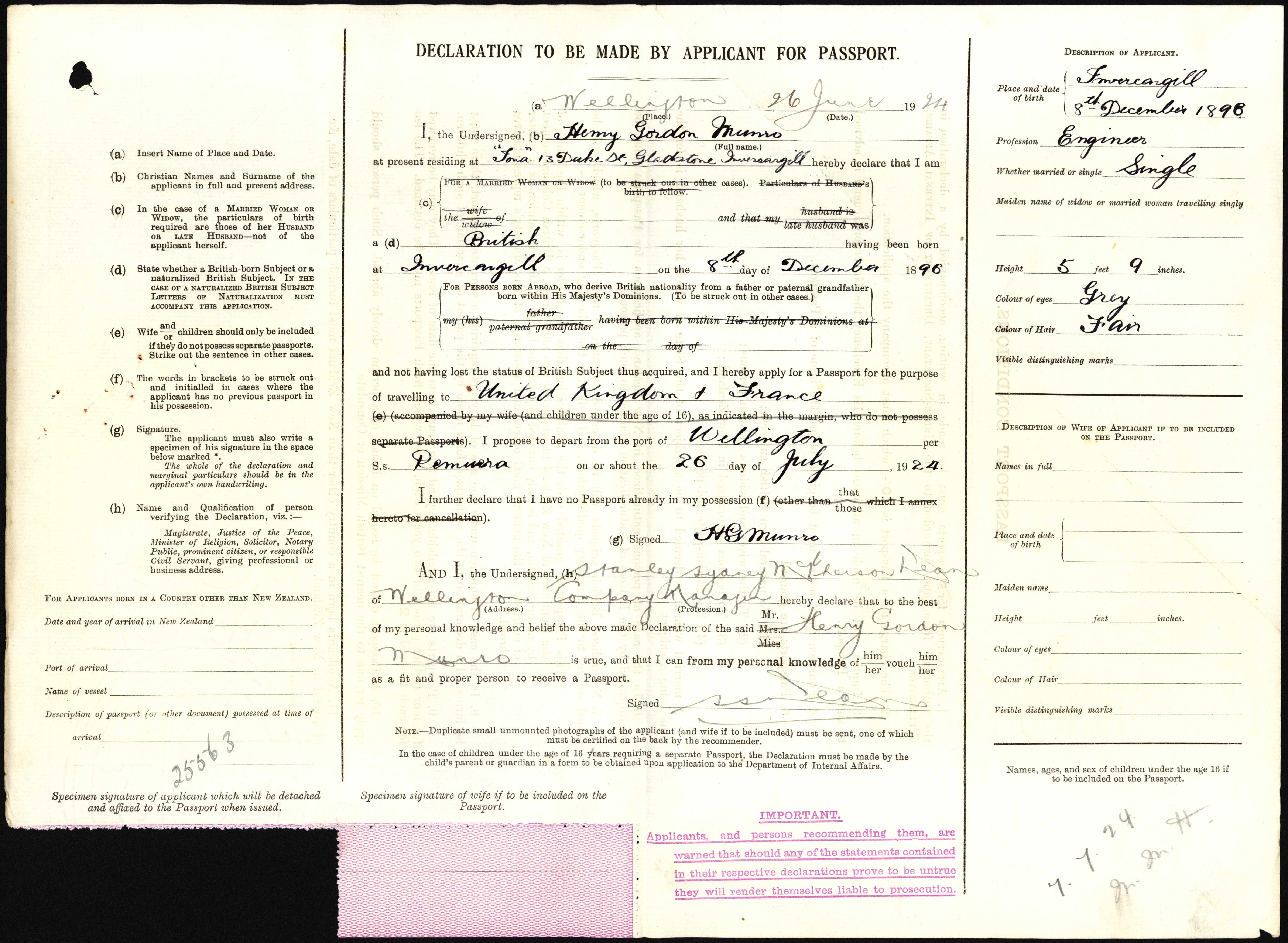 ACGO 8333 IA1 1349 / 15/11/17721 Henry Gordon Munro passport application (1924)